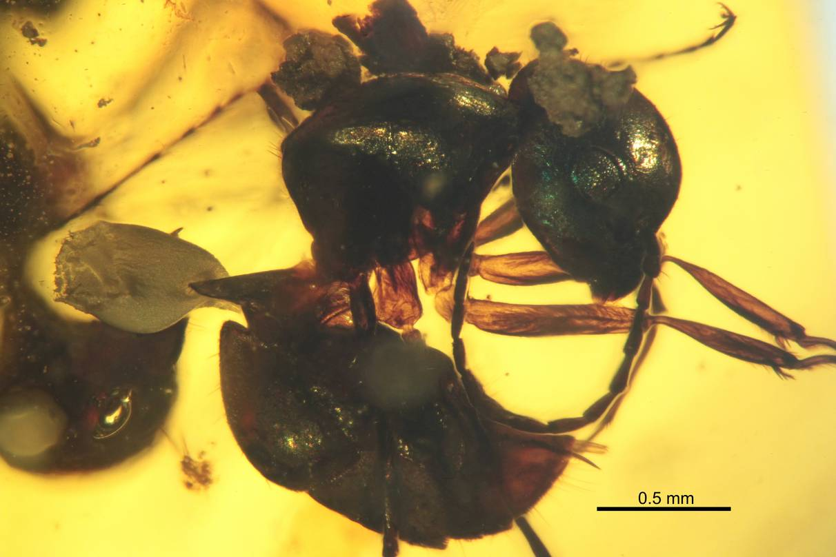 Profile view of the Zigrasimecia ferox paratype, specimen JWJ-Bu18b. Burmese amber, Cenomanian (99mya), Hukawng Valley, Myanmar